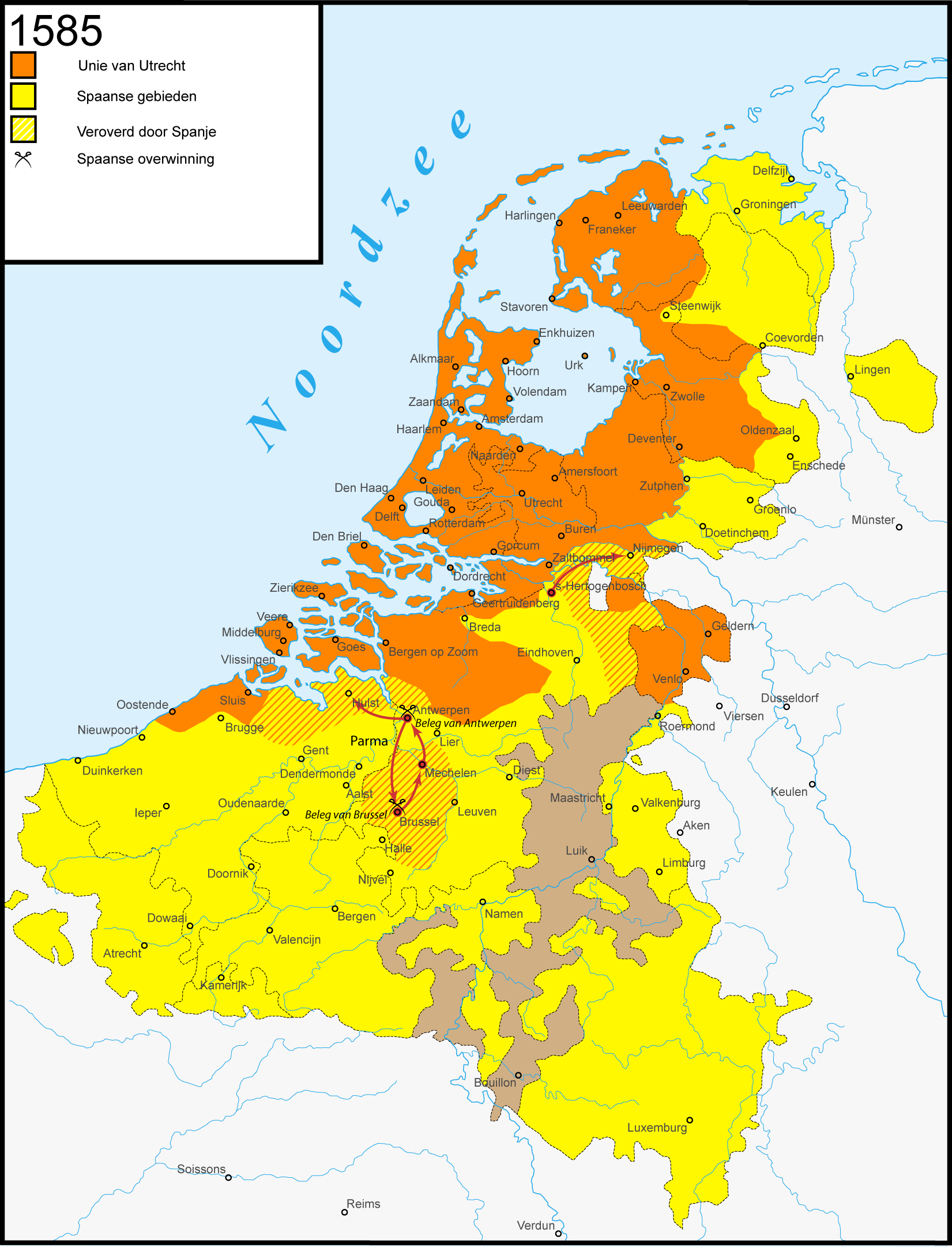 Warprogression in het Eighty Years' War: 1585. Dutch version